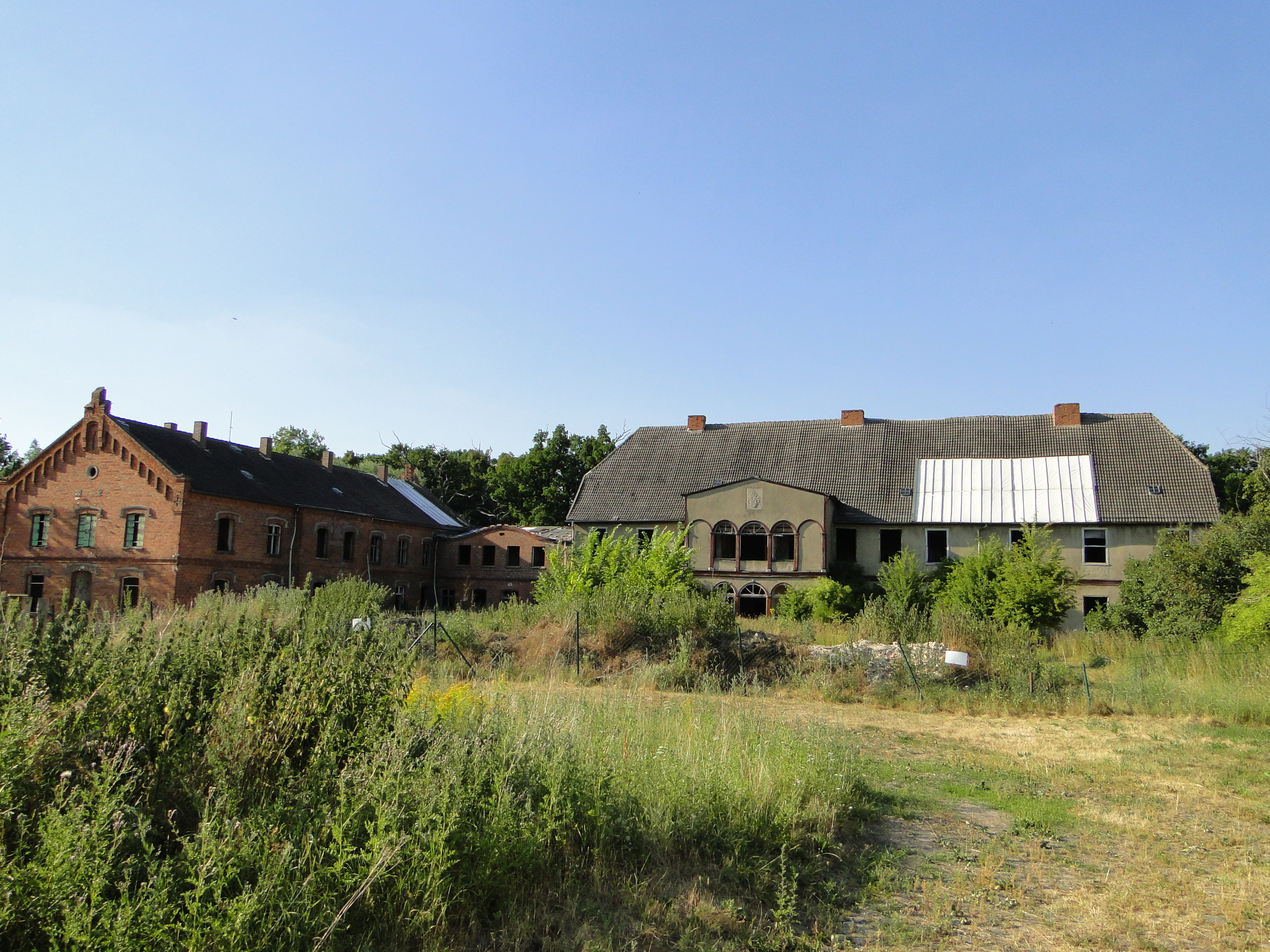 Manor house in Breesen, district Demmin, Mecklenburg-Vorpommern, Germany